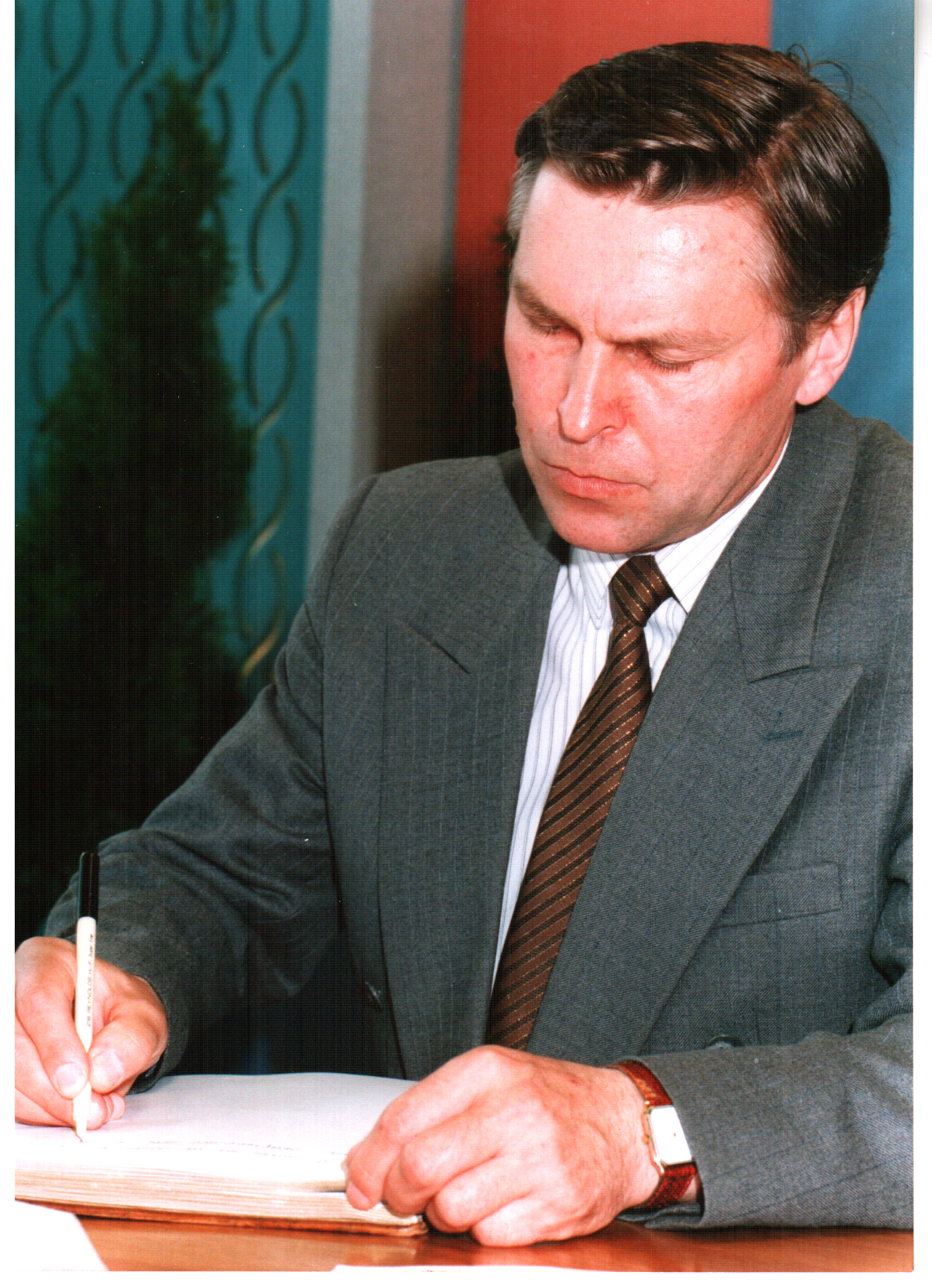 Vladimir Filippov